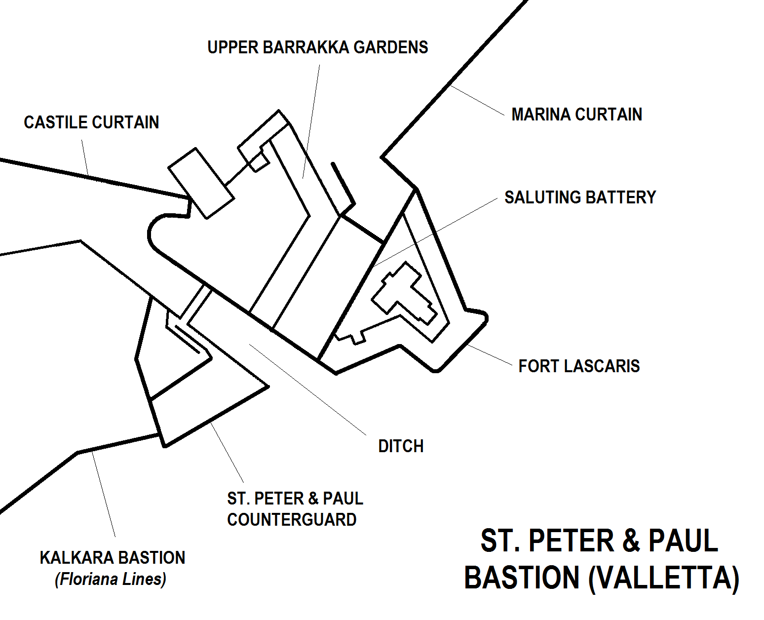 Map of St. Peter & Paul Bastion and the surrounding area, Valletta, Malta